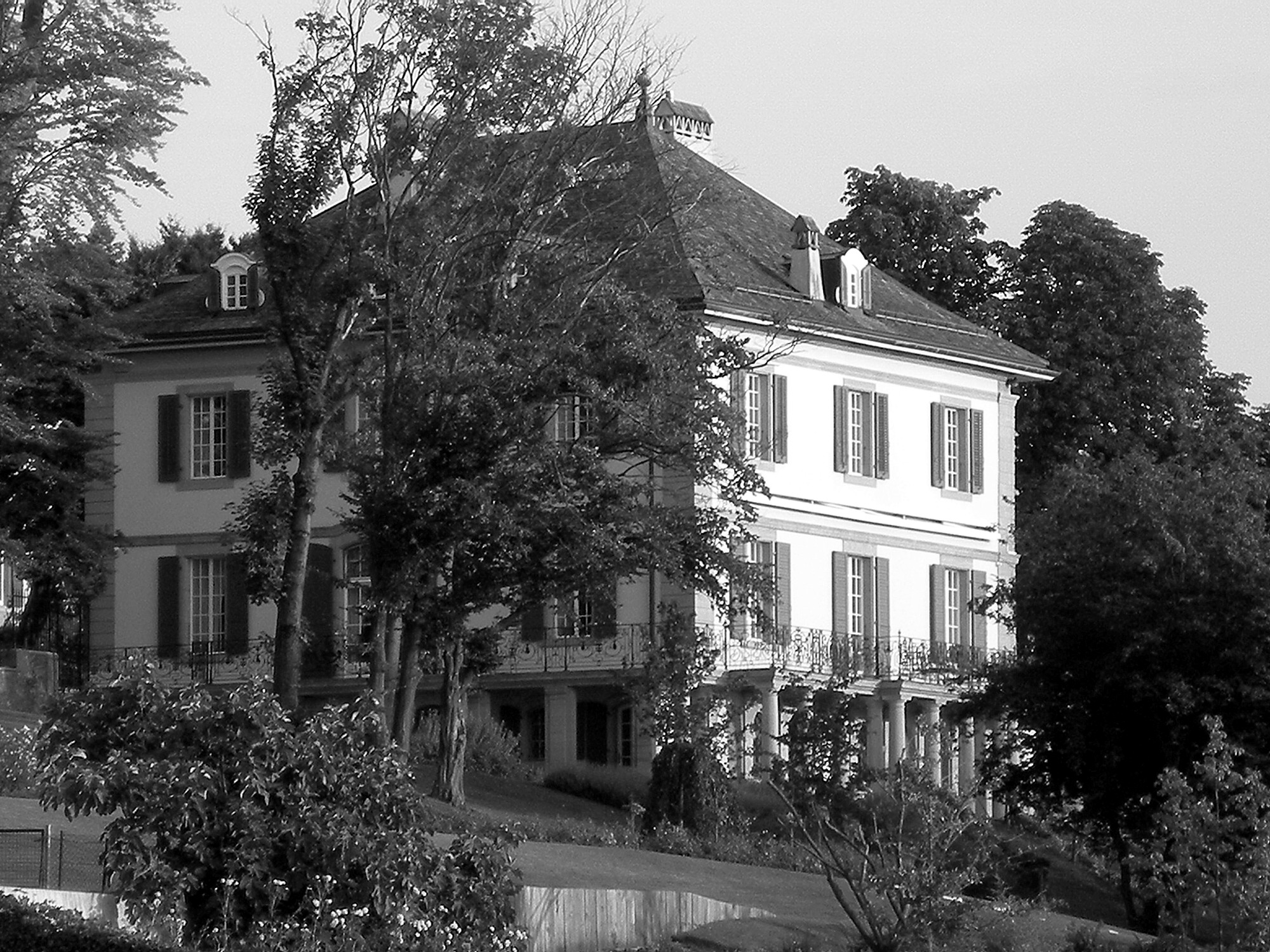 The Villa Diodati in Geneva, Switzerland 2008.07.27, view 5 out of 6